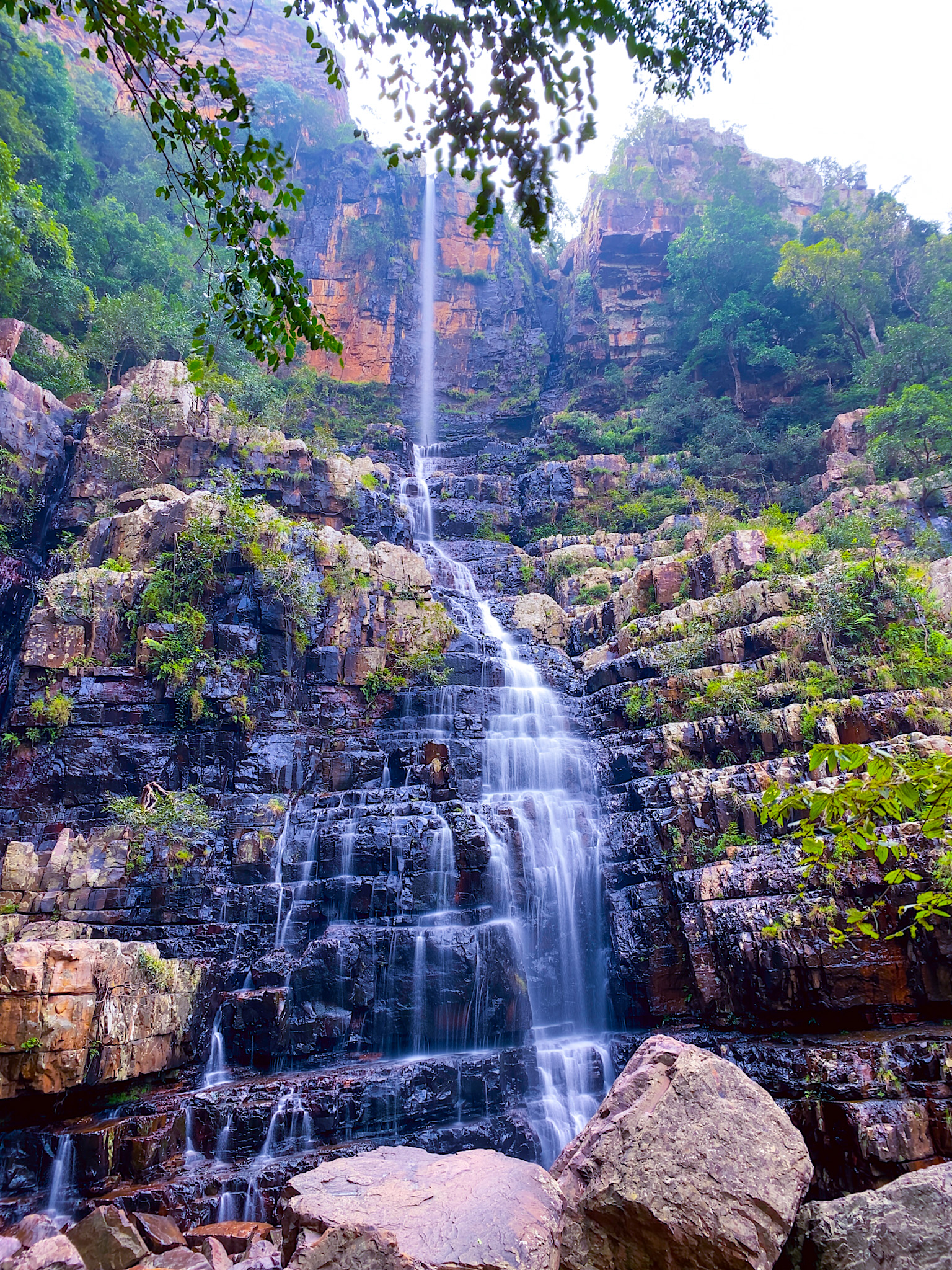 Talakona Waterfalls located near Tirupati, India